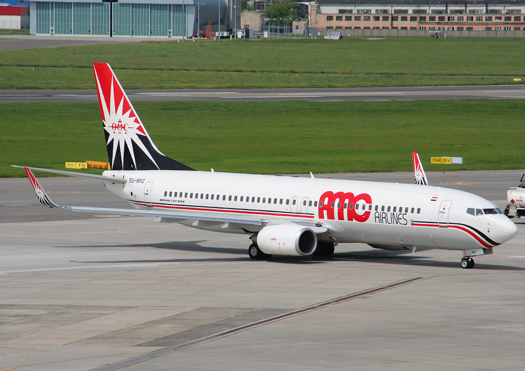 AMC Airlines Boeing 737-800 (SU-BPZ) at Warsaw Airport